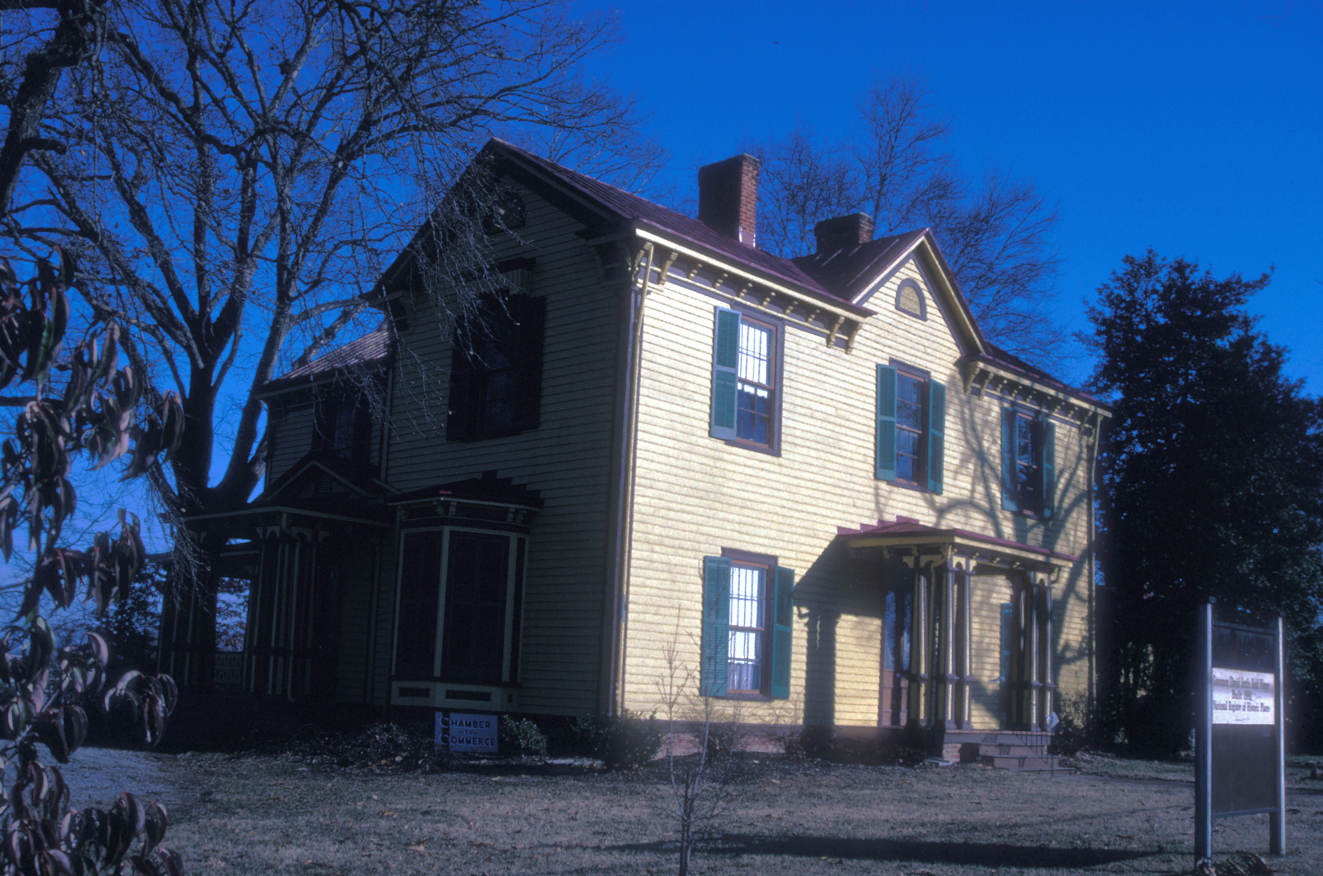 1881 FRAME VICTORIAN HOME OF GOVERNOR AND U.S. SENATOR; LOCATED IN REIDSVILLE